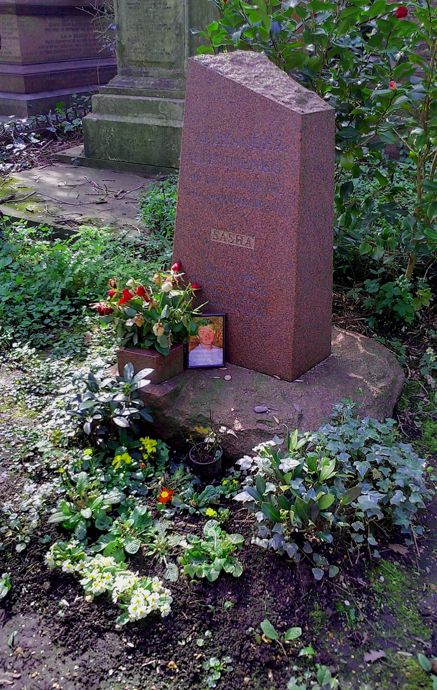 The grave of Alexander Litvinyenko in the West End of Highgate Cemetery, London Borough of Islington.